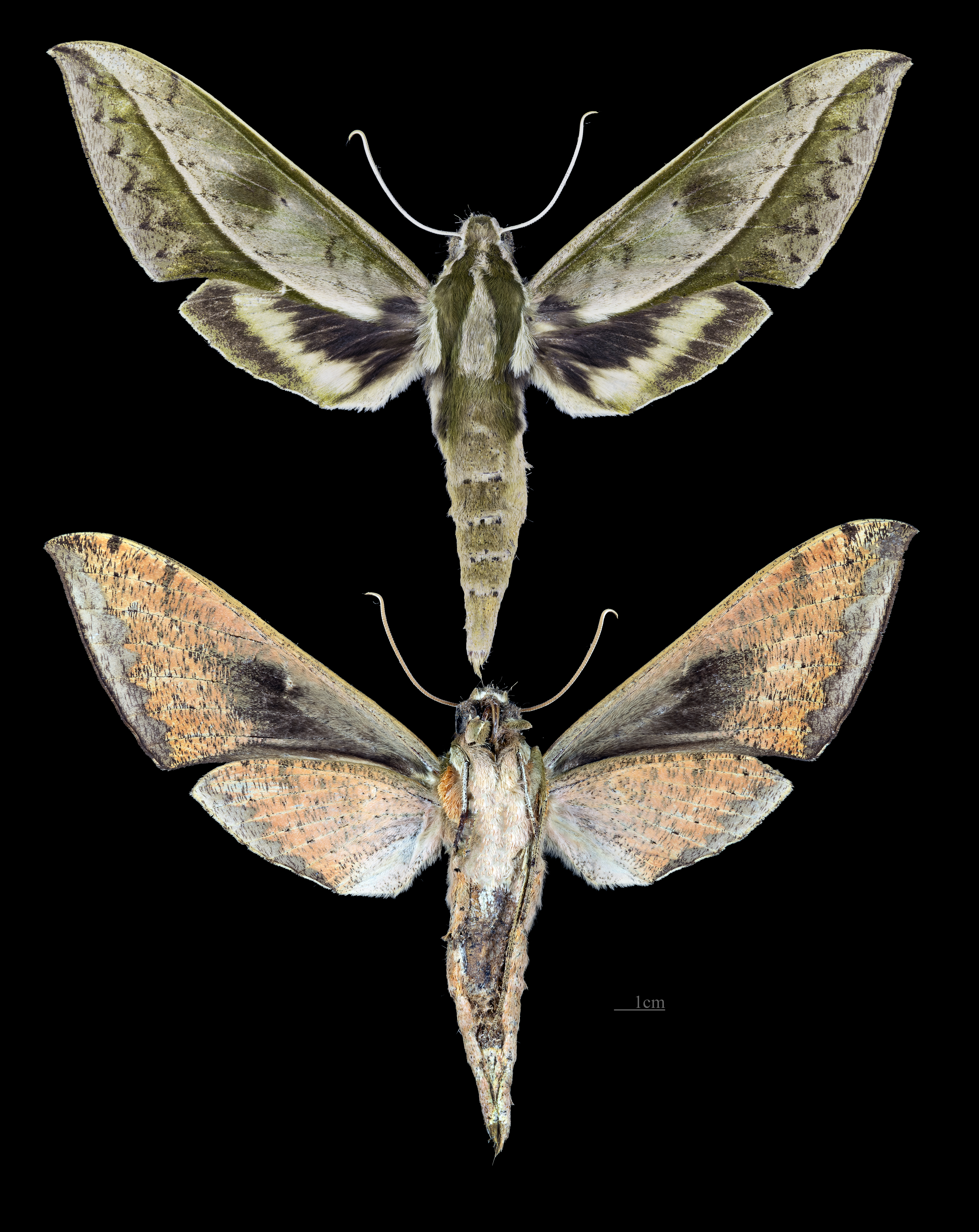 Xylophanes amadis - Two views of same specimen Collection of the Mathematician Laurent Schwartz